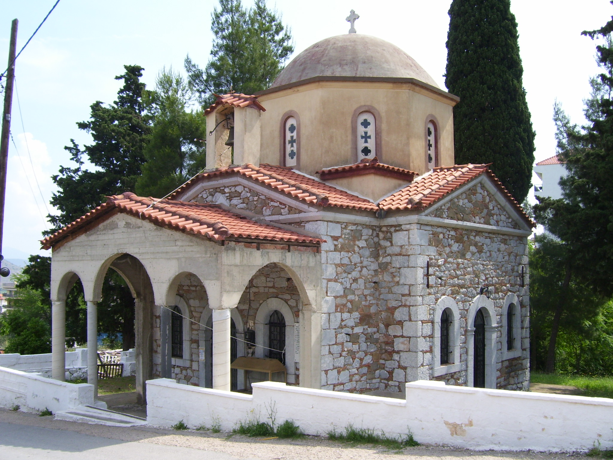 Agios Meletios, church in Livadeia, Boeotia